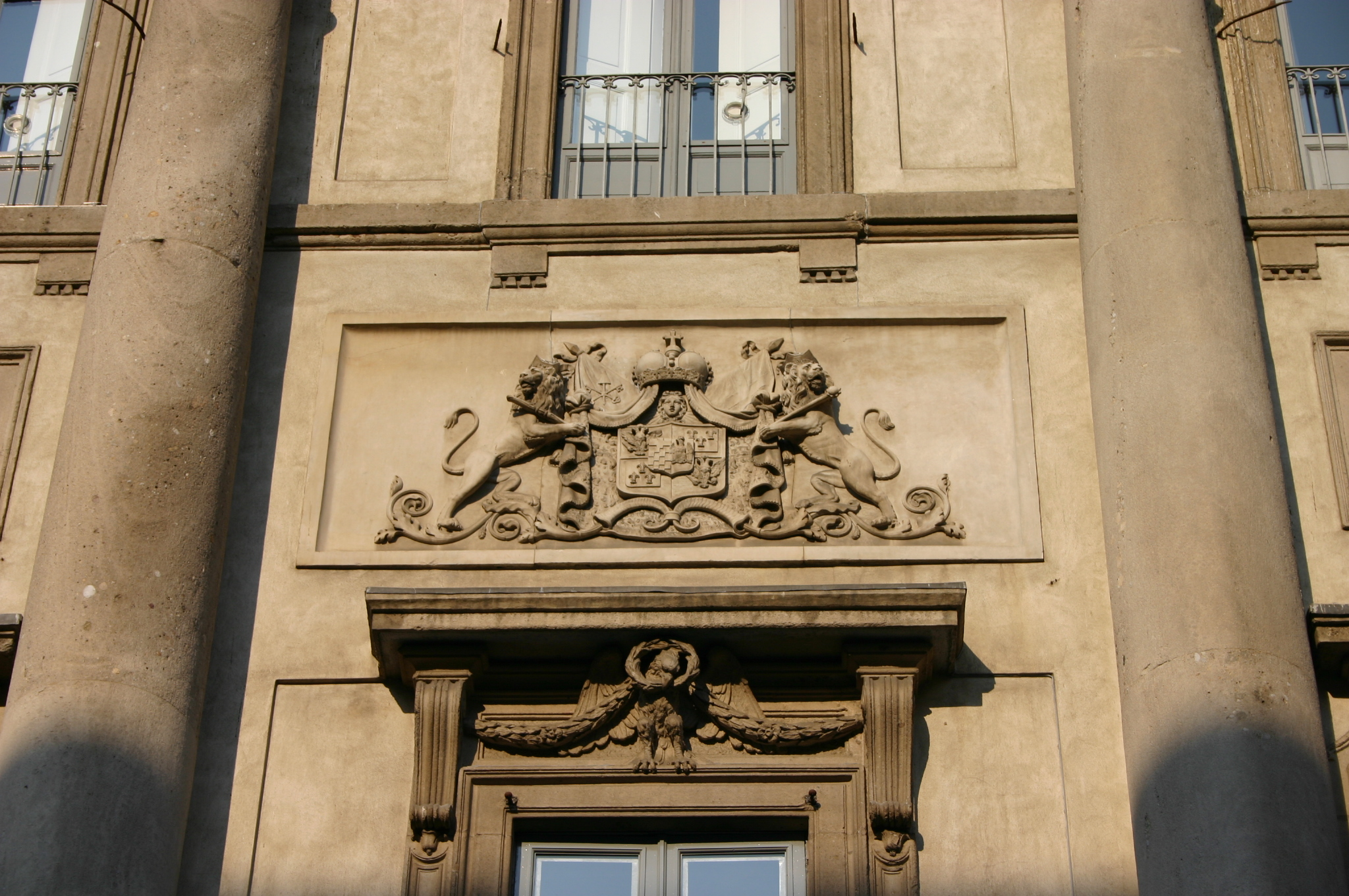 The coat of arms above the main entrance to Palazzo Belgioioso (also spelled Belgiojoso) in Milan, Italy. The palace was built, after a project by Giuseppe Piermarini, between 1772 and 1781 for prince Alberico XII di Belgioioso d'Este. It is considered one of the best examples of Neoclassical architecture in Milan. Picture by Giovanni Dall'Orto, April 14 2007.